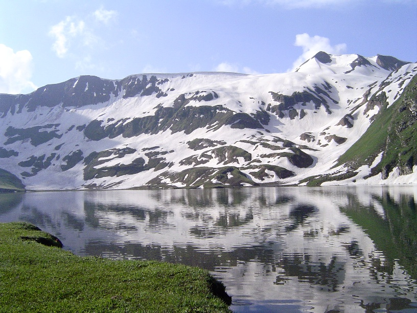 Refelection of snow peaks (Author: Ch. Muhammad Umer